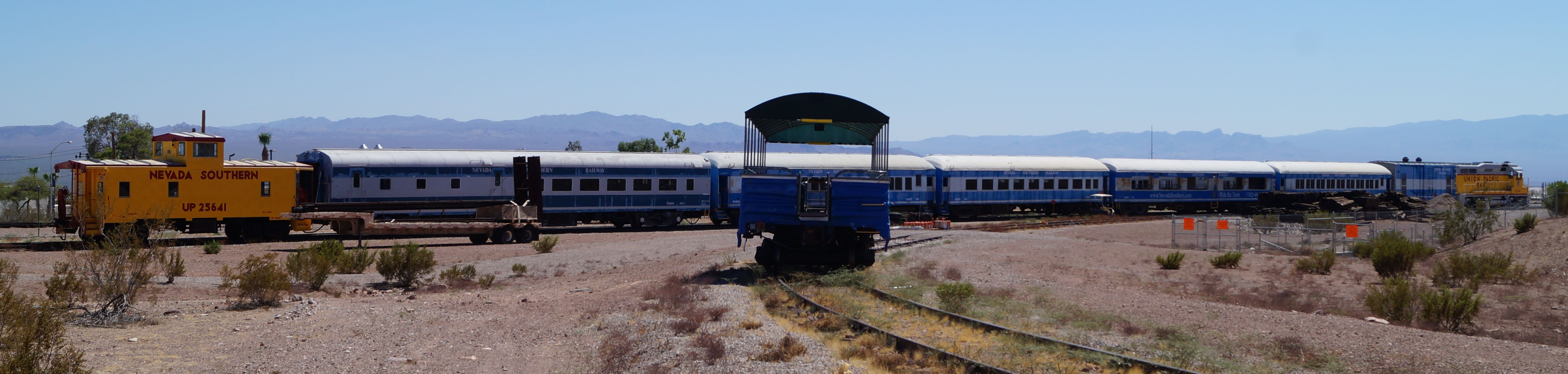 The Nevada State Railroad Museum which is an agency of the Nevada Department of Cultural Affairs. It is located at Yucca Street on the tracks of the historic Union Pacific Railroad branch Henderson-Boulder City near the former Boulder City Railroad Yards where the Hoover Dam construction equipment was unloaded in the 1930s.